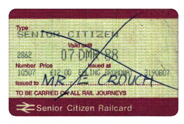 First APTIS version of the Senior Citizen Railcard, with dark pink bands. Scanned from my own collection.